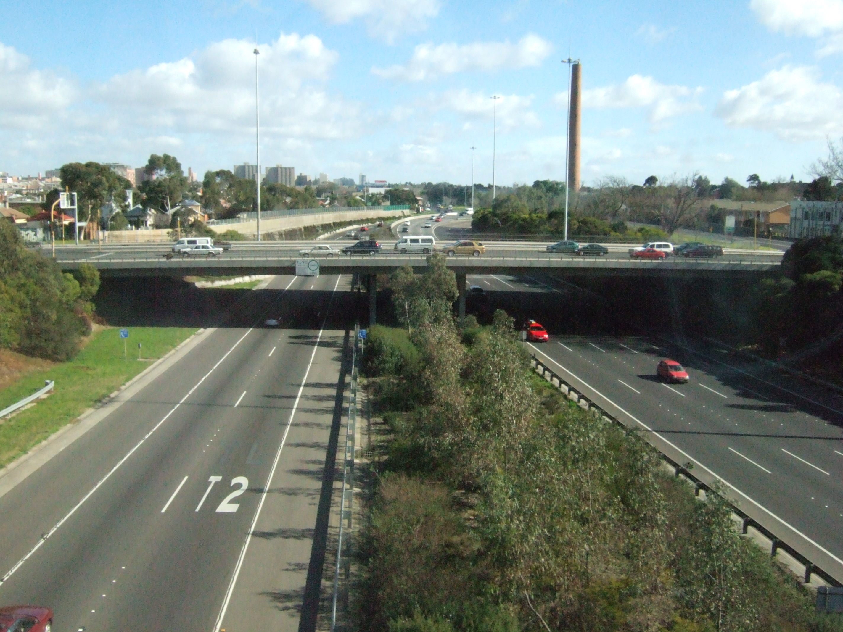 The Eastern Freeway in Melbourne, taken from the Hurstbridge train line, looking towards Hoddle St. By me.